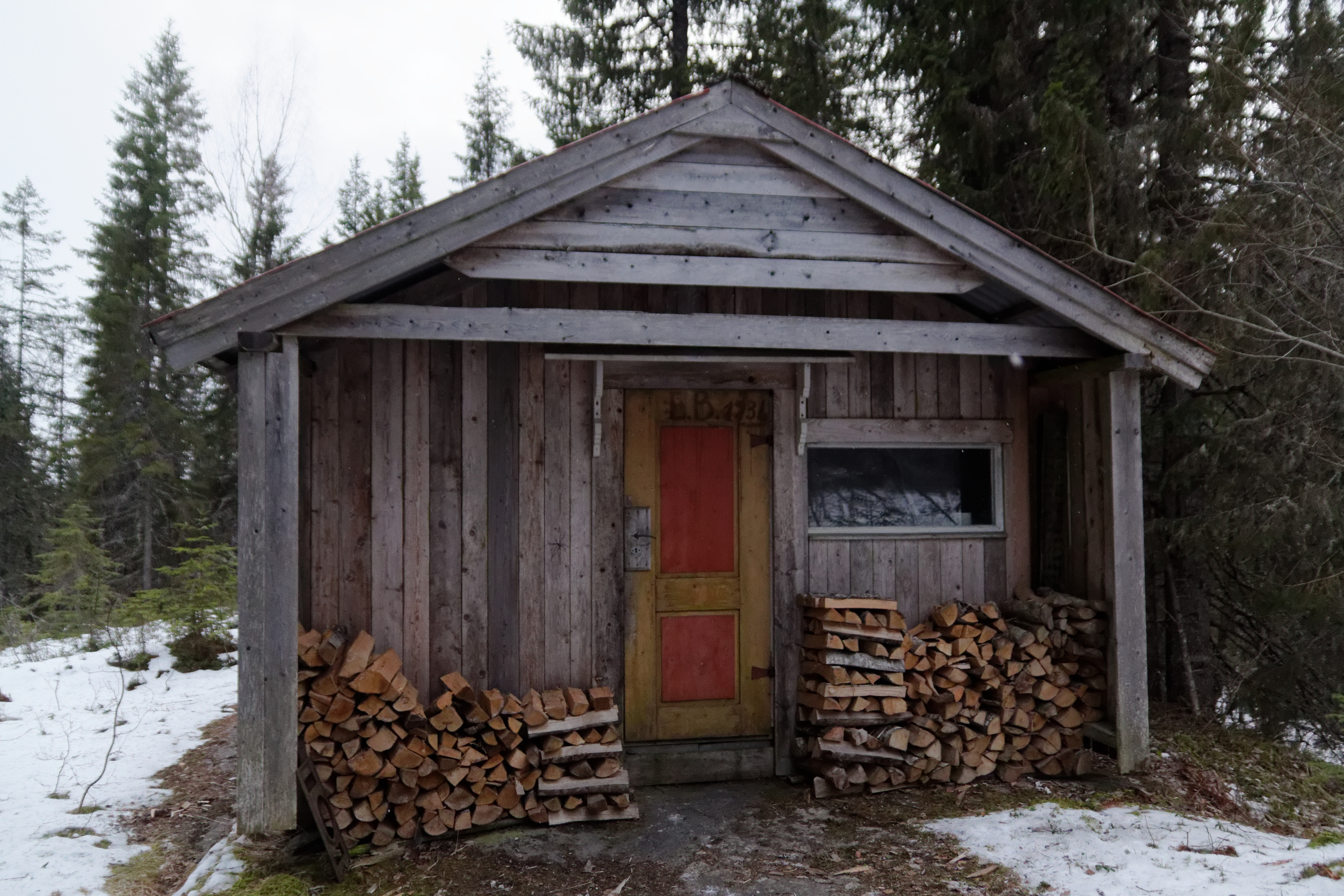 Såinnhus, a traditional malt-drying house, in the Forra valley, in Stjørdal, Norway. On the farm Beitlandet.